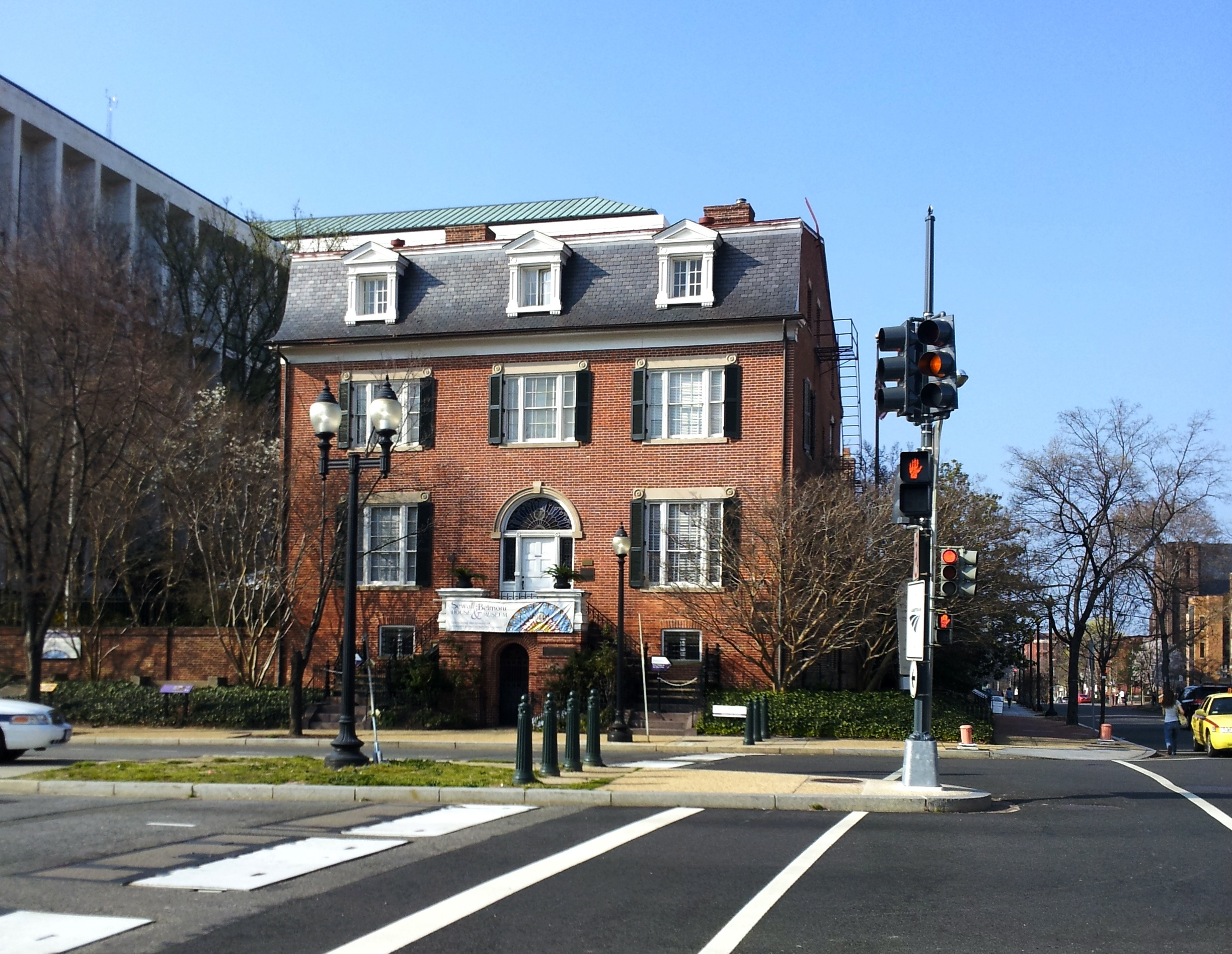 Looking north across Constitution Avenue NW at the Sewall-Belmont House and Museum, with the Hart Senate Office Building behind it.